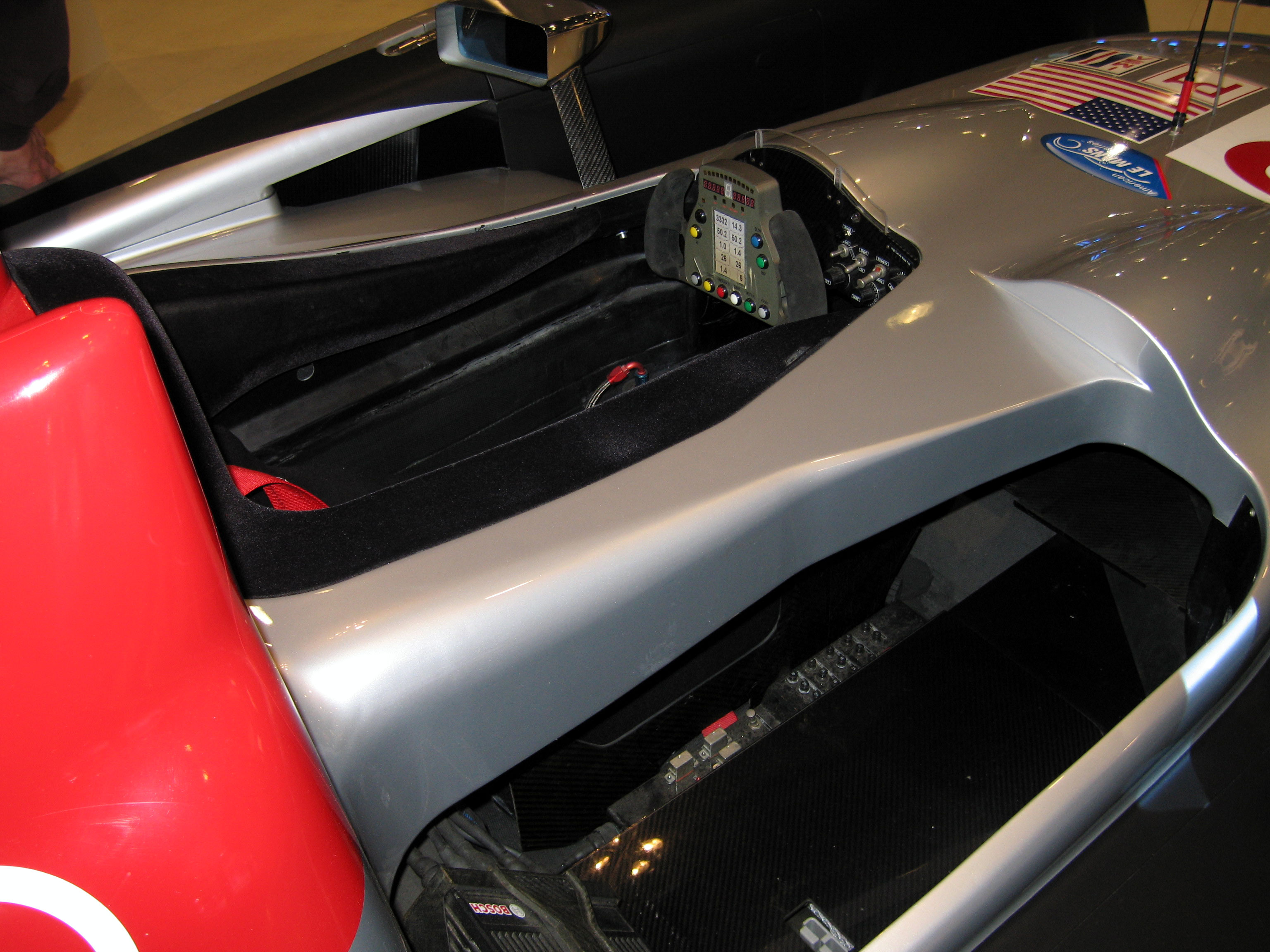 Audi R10 TDI cockpit at the IAA 2007